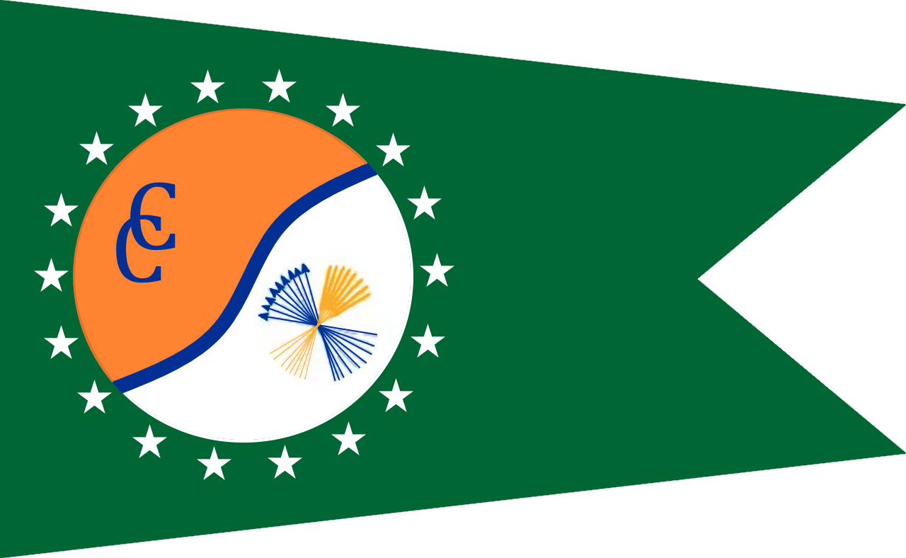 Designed by Debbie Thorp, 1972